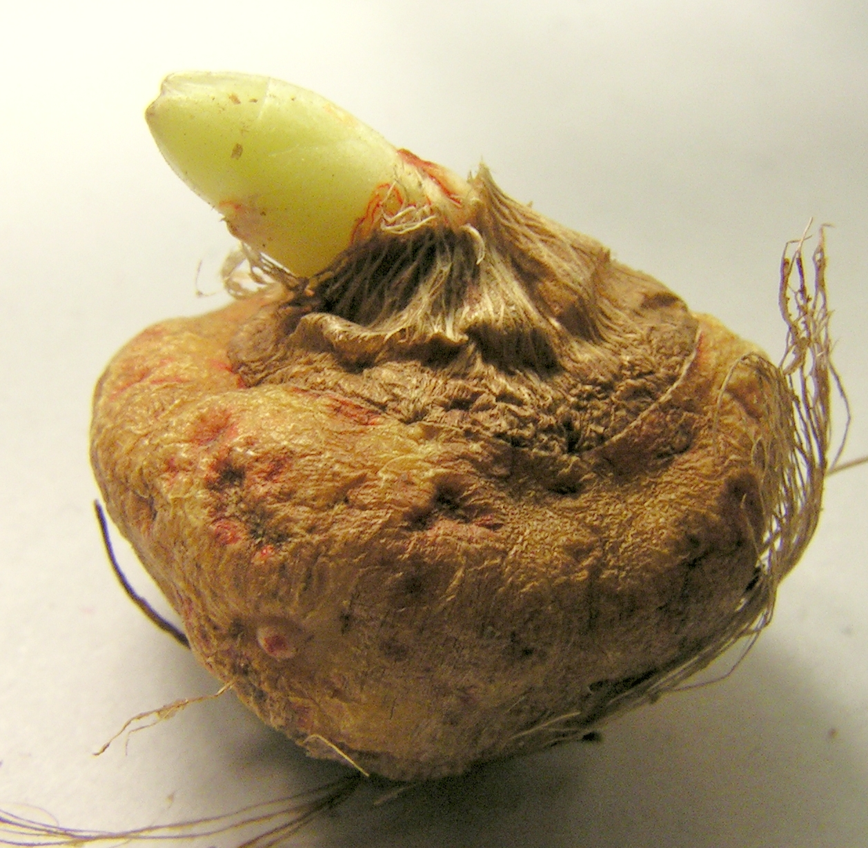 The сorm of Ixia sp. (diameter of the сorm is appr. 2 cm).